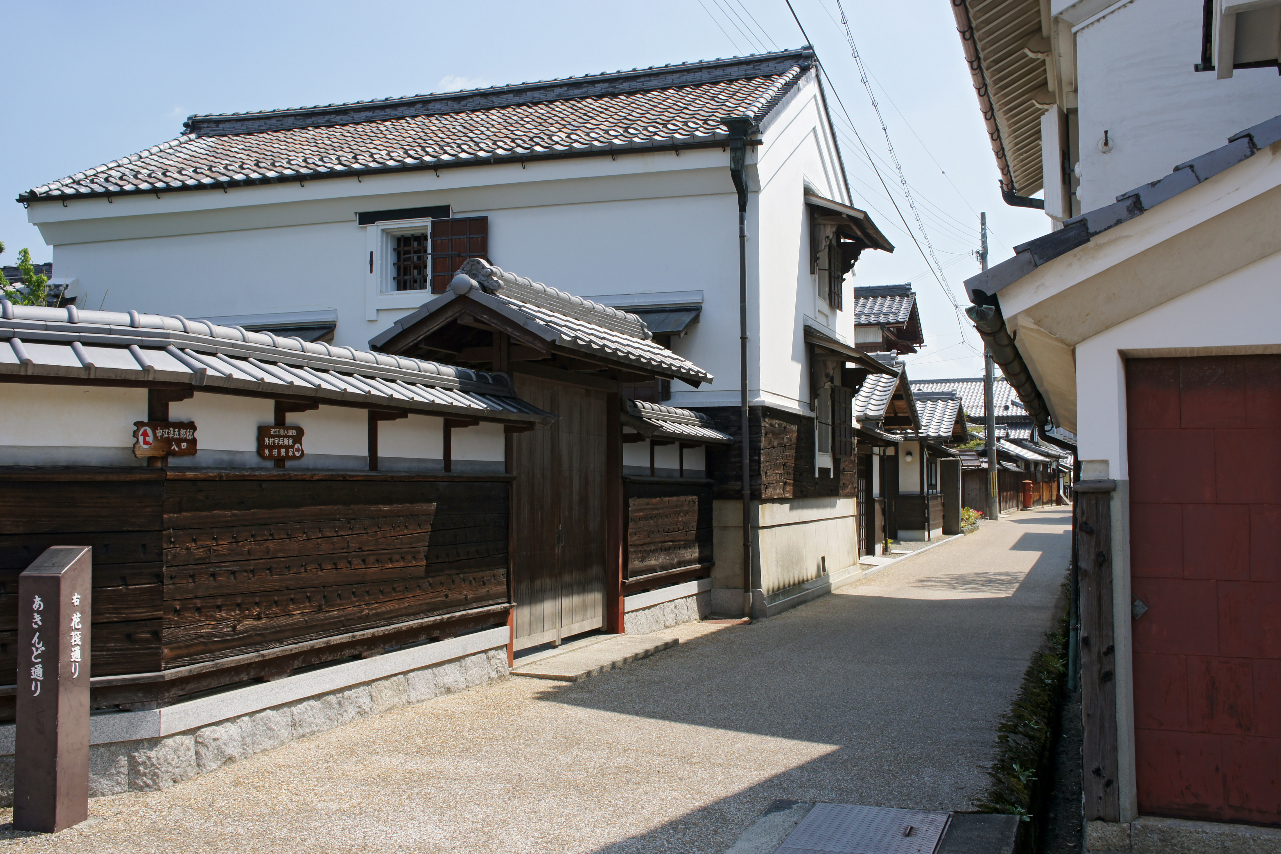 Kondo-cho, Gokasho in Higashiomi, Shiga prefecture, Japan.